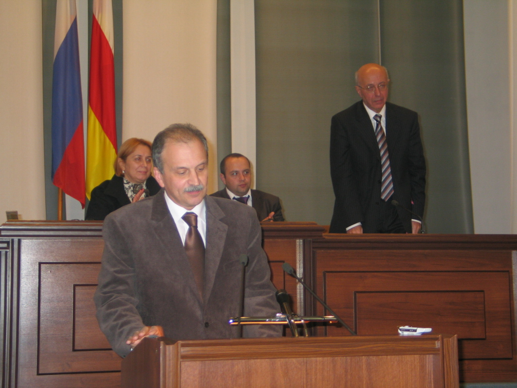 Historian Bzarov